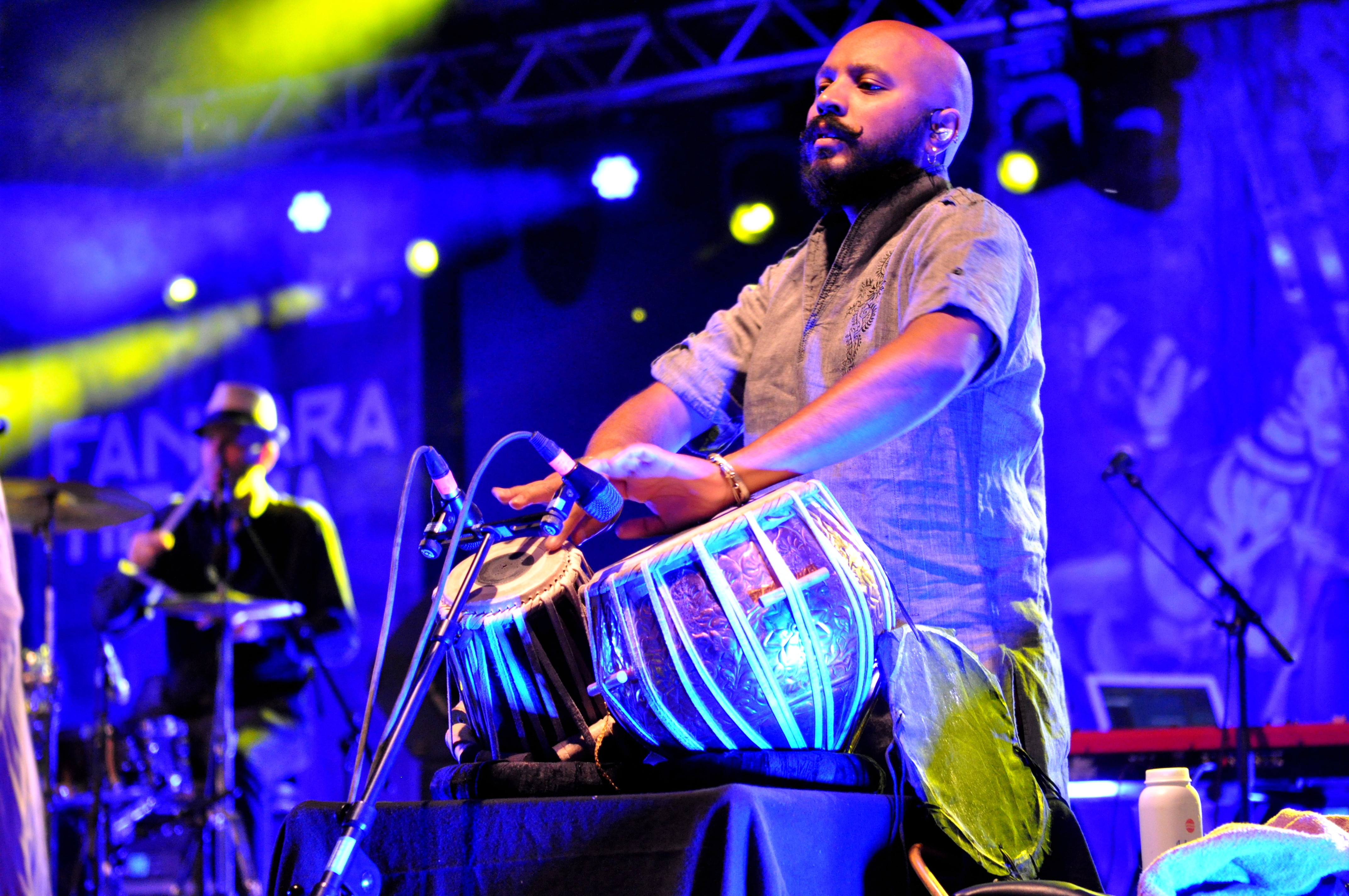 Fanfare Tirana meets Transglobal Underground (ALB/GBR), World Music Festival Horizonte 2015, Ehrenbreitstein Fortress, Koblenz, Rhineland-Palatinate, Germany Festivalsommer This photo was created with the support of donations to Wikimedia Deutschland in the context of the CPB project "Festival Summer".